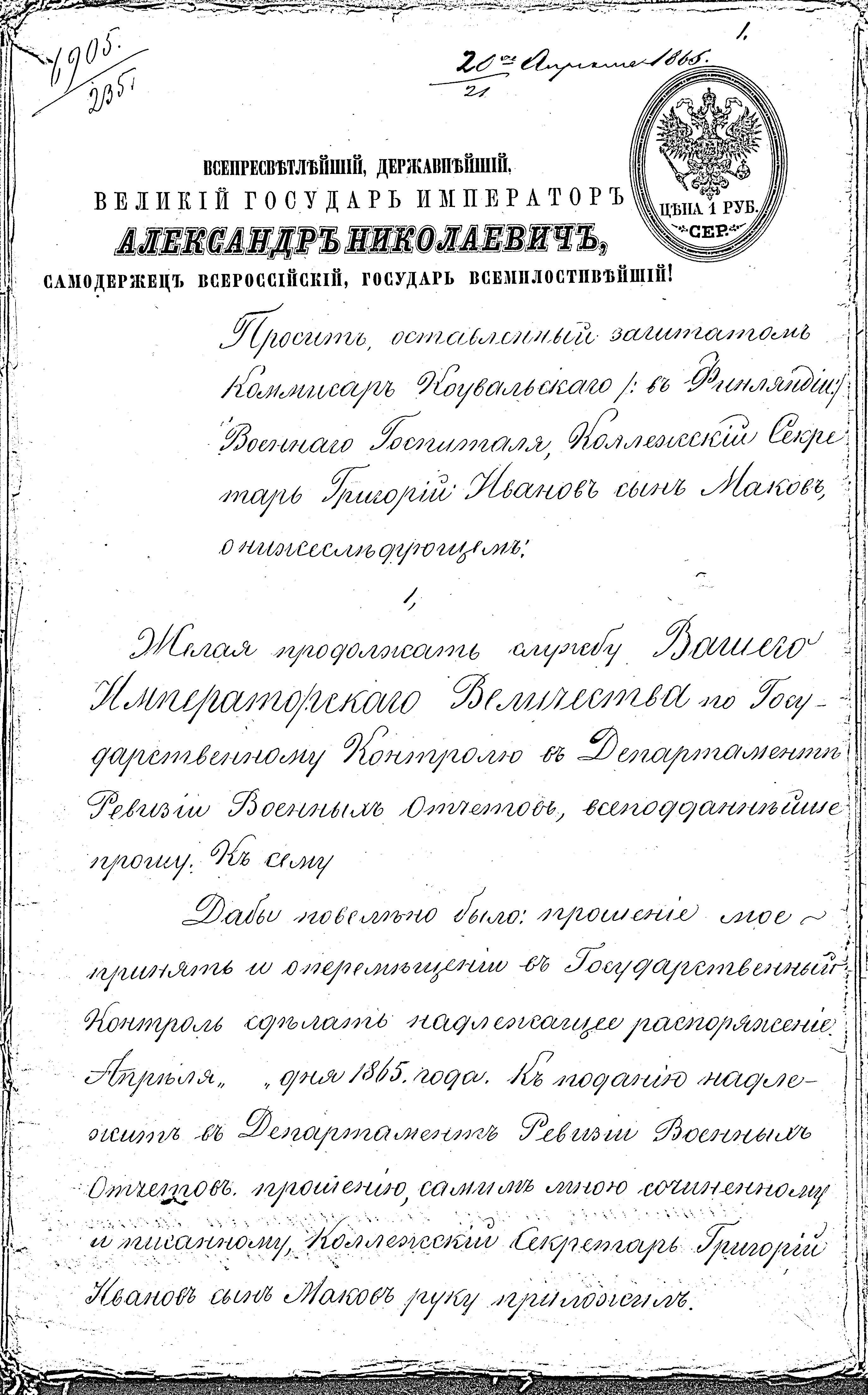 The petition of the Collegiate Secretary Makov Grigory Ivanovich to Emperor Alexander II to continue the service of State control In the Department of audit of military reports. Russian Empire, St. Petersburg, April 1865. Makov G. I. is the grandfather of the Leningrad poet Makov Nikolai Ivanovich.